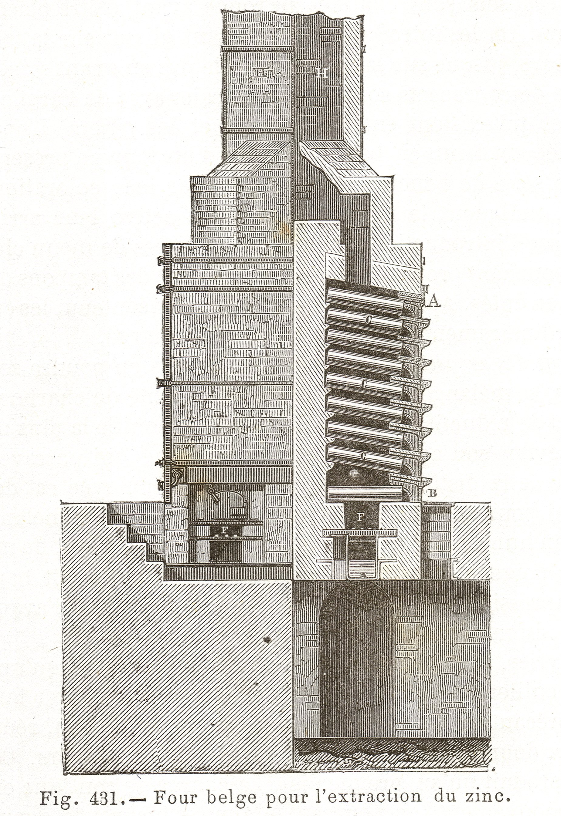 Belgium oven for the extraction of zinc. Picture scanned in : Dictionnaire de chimie industriel (Dictionary of industrial chemistry) (Barreswil, A. Girard) 1864, tome 3, page 89.